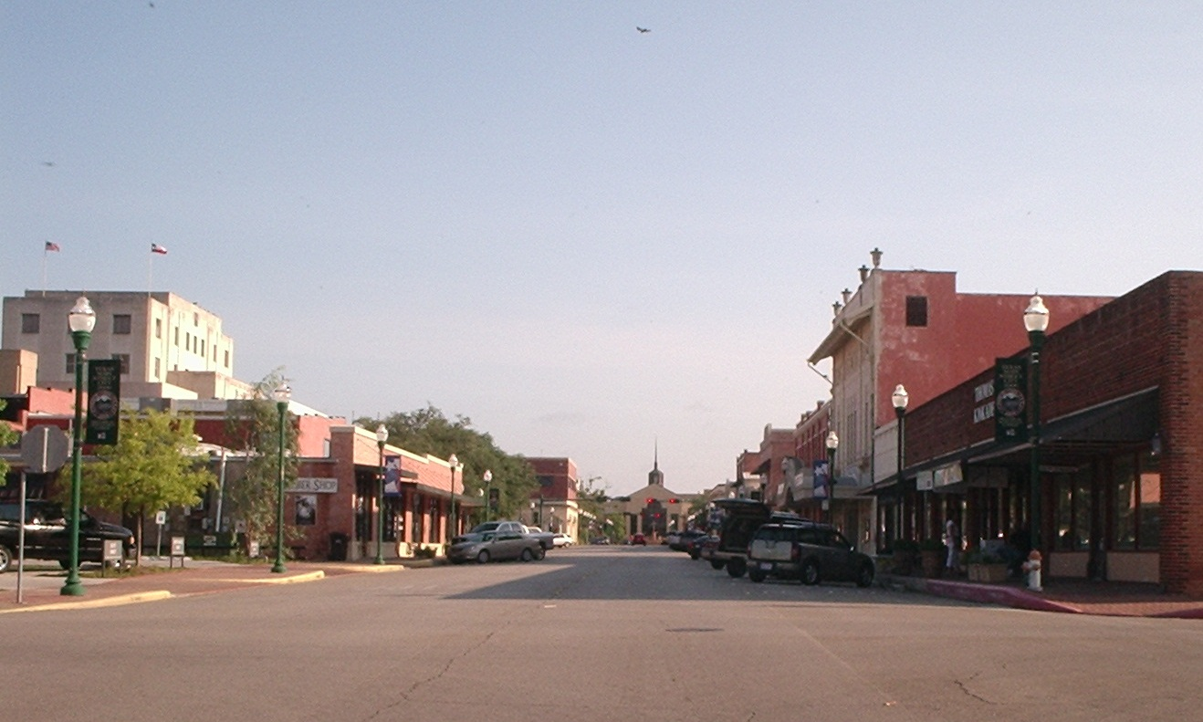 North Main St., Conroe, Texas, viewed looking north near its intersection with Simonton St.